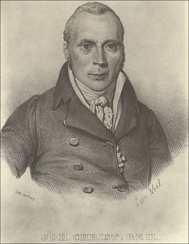 Johann Christian Reil (1759–1813), German physician